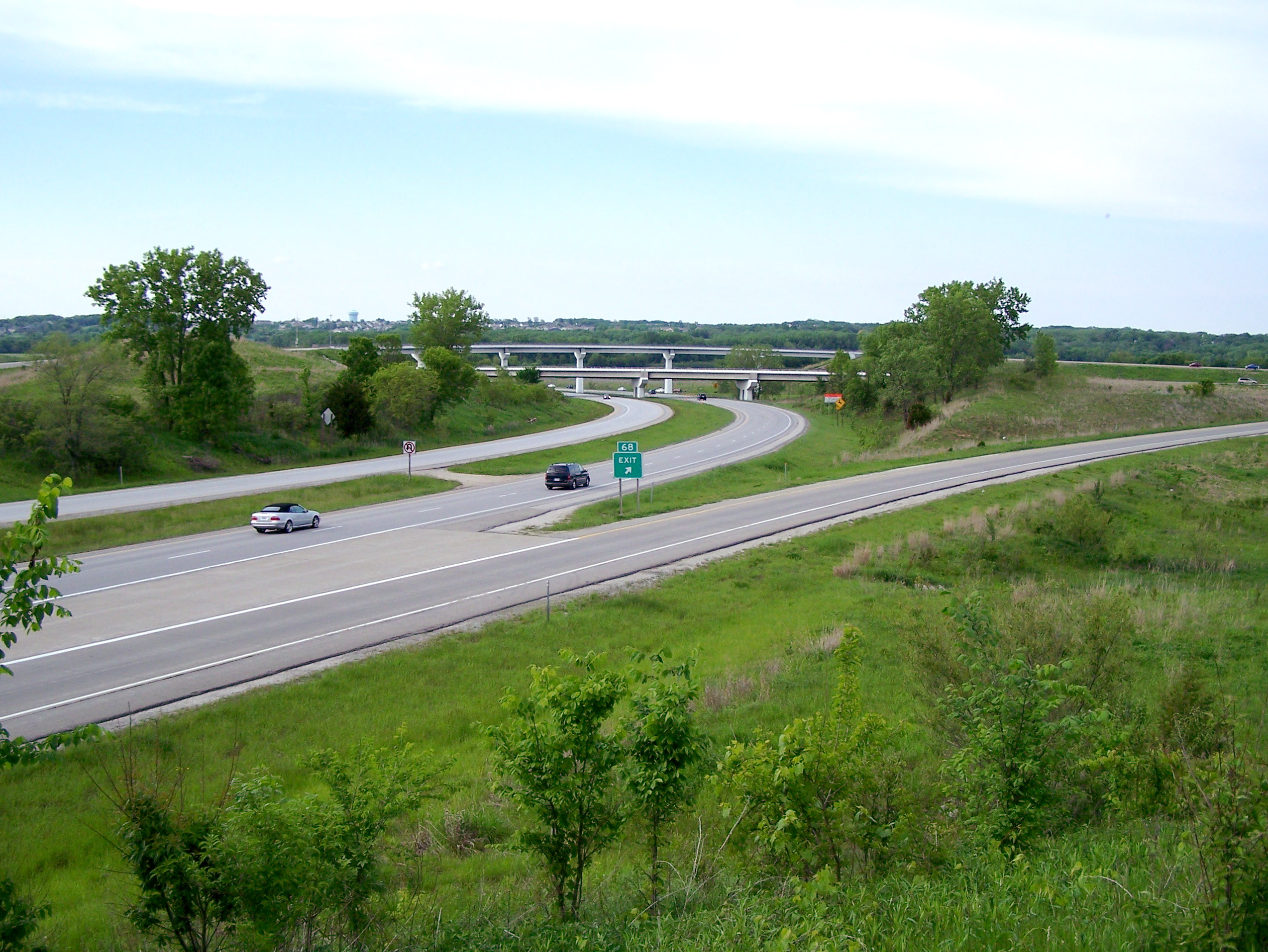 Exit 68, the Iowa Highway 5 interchange, along Interstate 35 south of West Des Moines, Iowa.